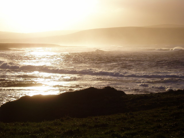 Bunatrahir Bay